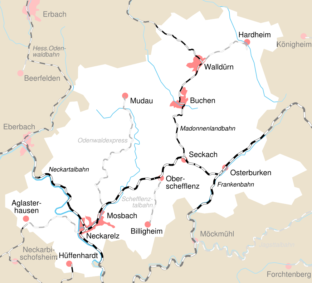 railway map of German Neckar-Odenwald district. please see User:Kjunix/BahnNWB for comments.